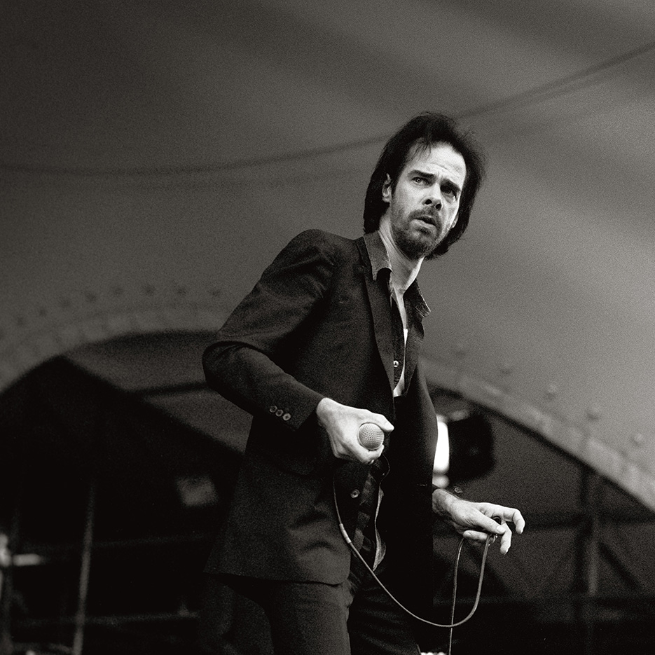 Nick Cave Concert in Hamburg/Germany in July 2001